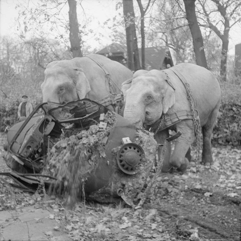 Germany Under Allied Occupation Circus elephants Kiri and Many moving a wrecked car from a bombed out garage in Hamburg.